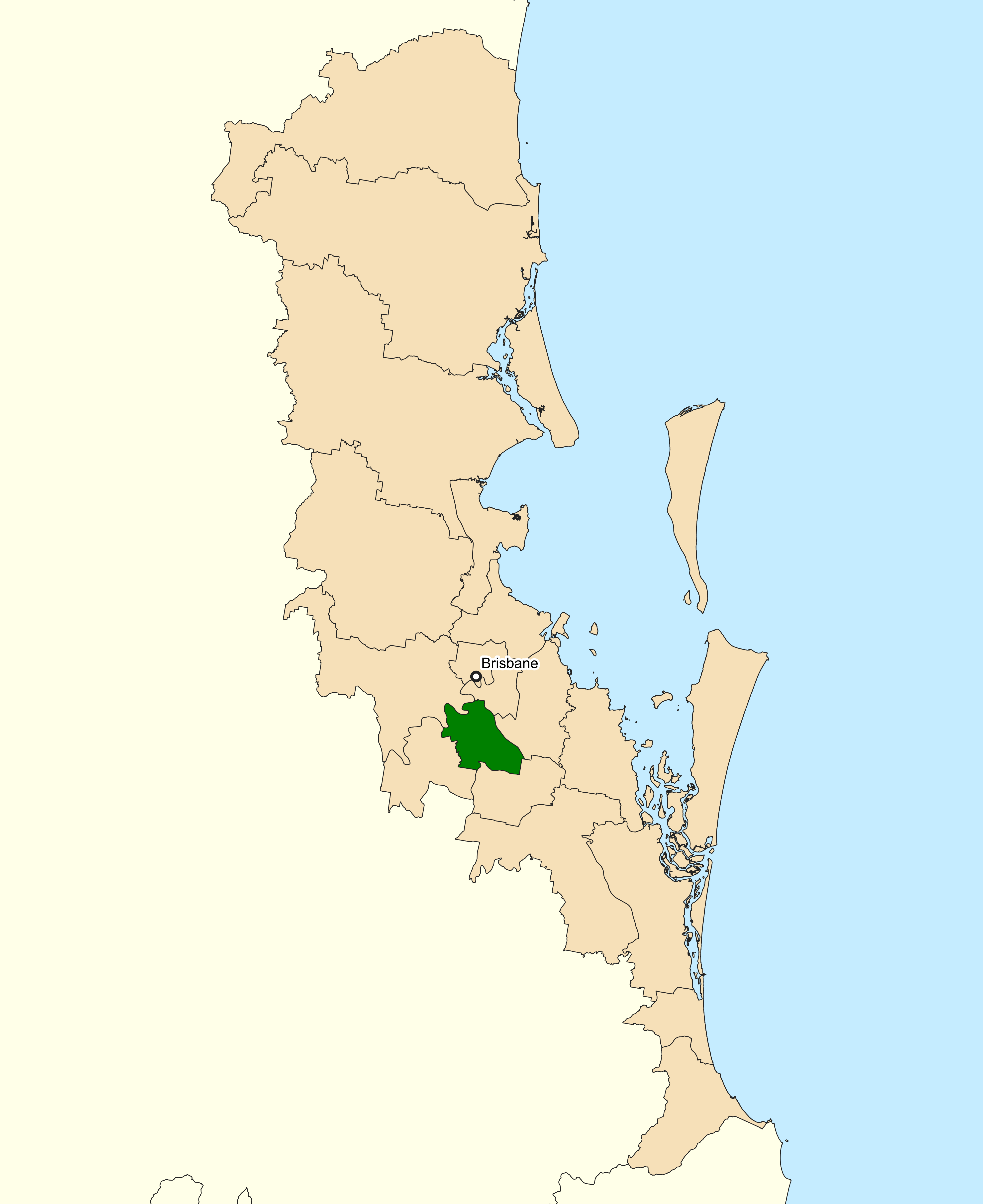 Location of the Australian federal electoral division of Moreton (dark green) in Greater Brisbane, Queensland as of the 2019 Australian federal election. Incorporates or developed using Administrative Boundaries ©PSMA Australia Limited licensed by the Commonwealth of Australia under Creative Commons Attribution 4.0 International licence (CC BY 4.0).